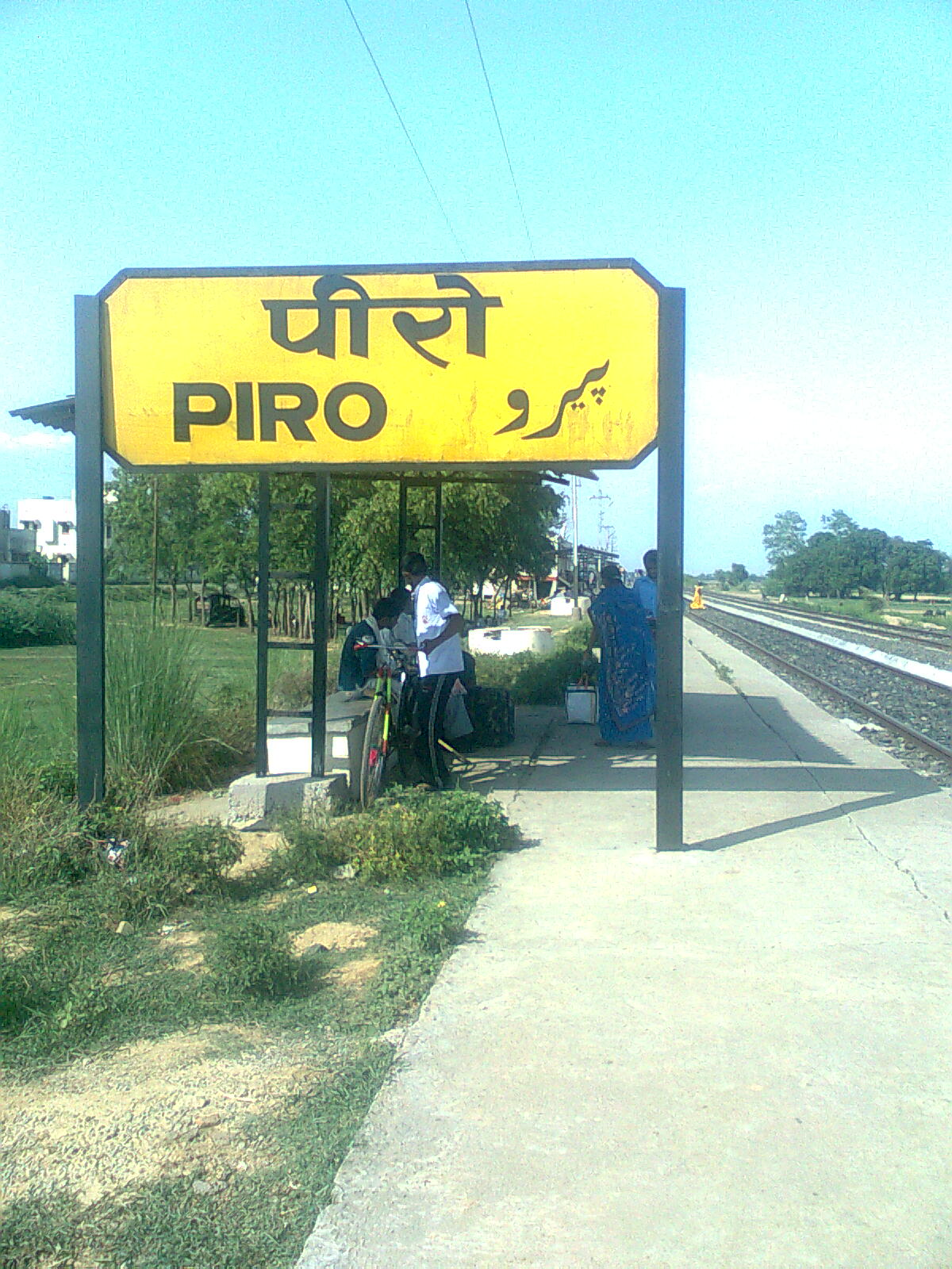 A board denotes Piro Railway Station